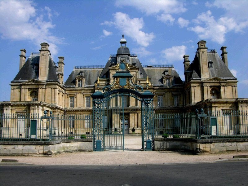 Main door Maisons-Laffitte castel